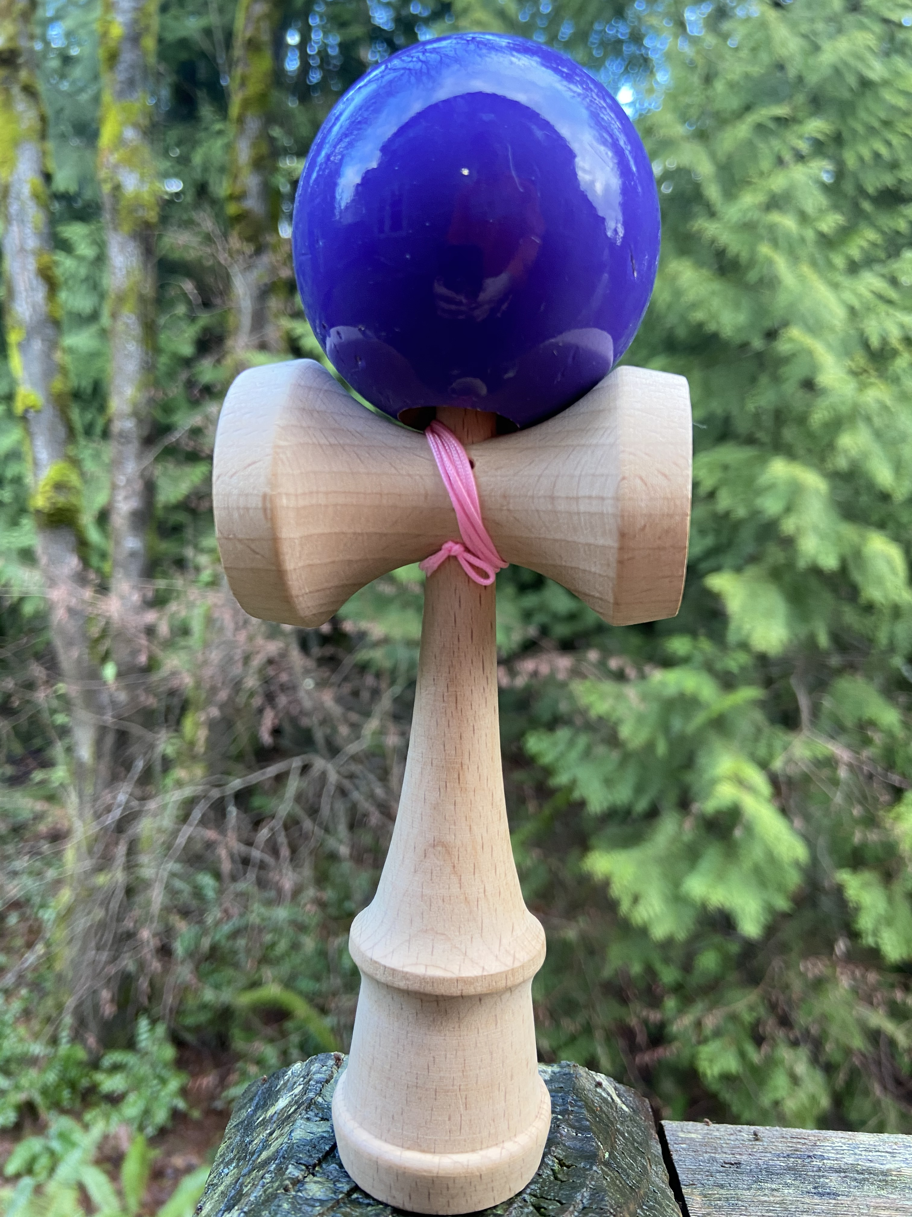 Kendama; a traditional wooden japanese skill toy